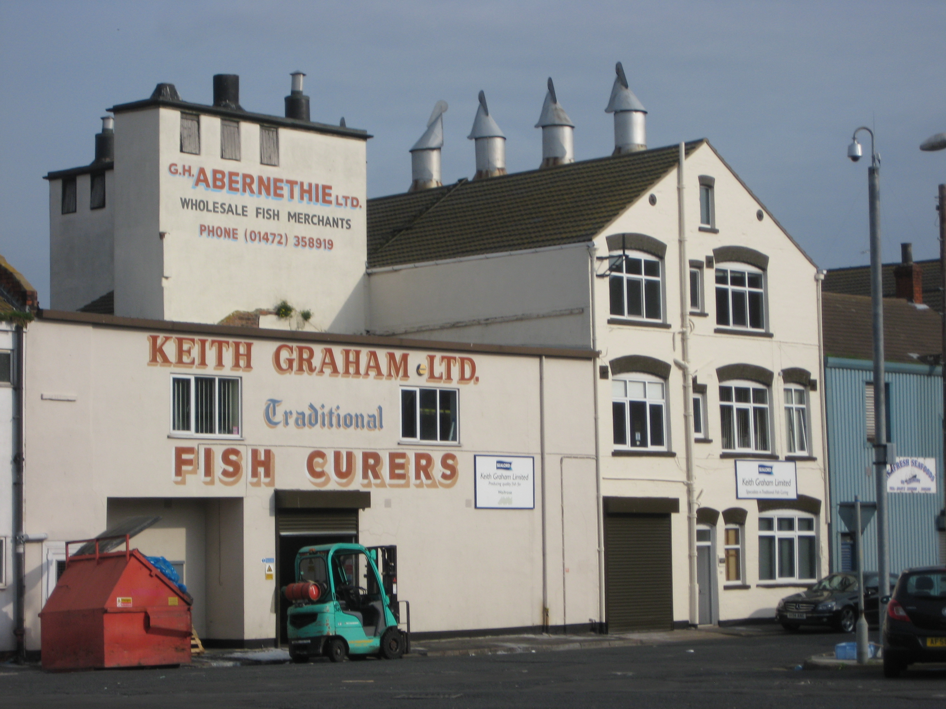 Cross Street, Grimsby Fish Docks